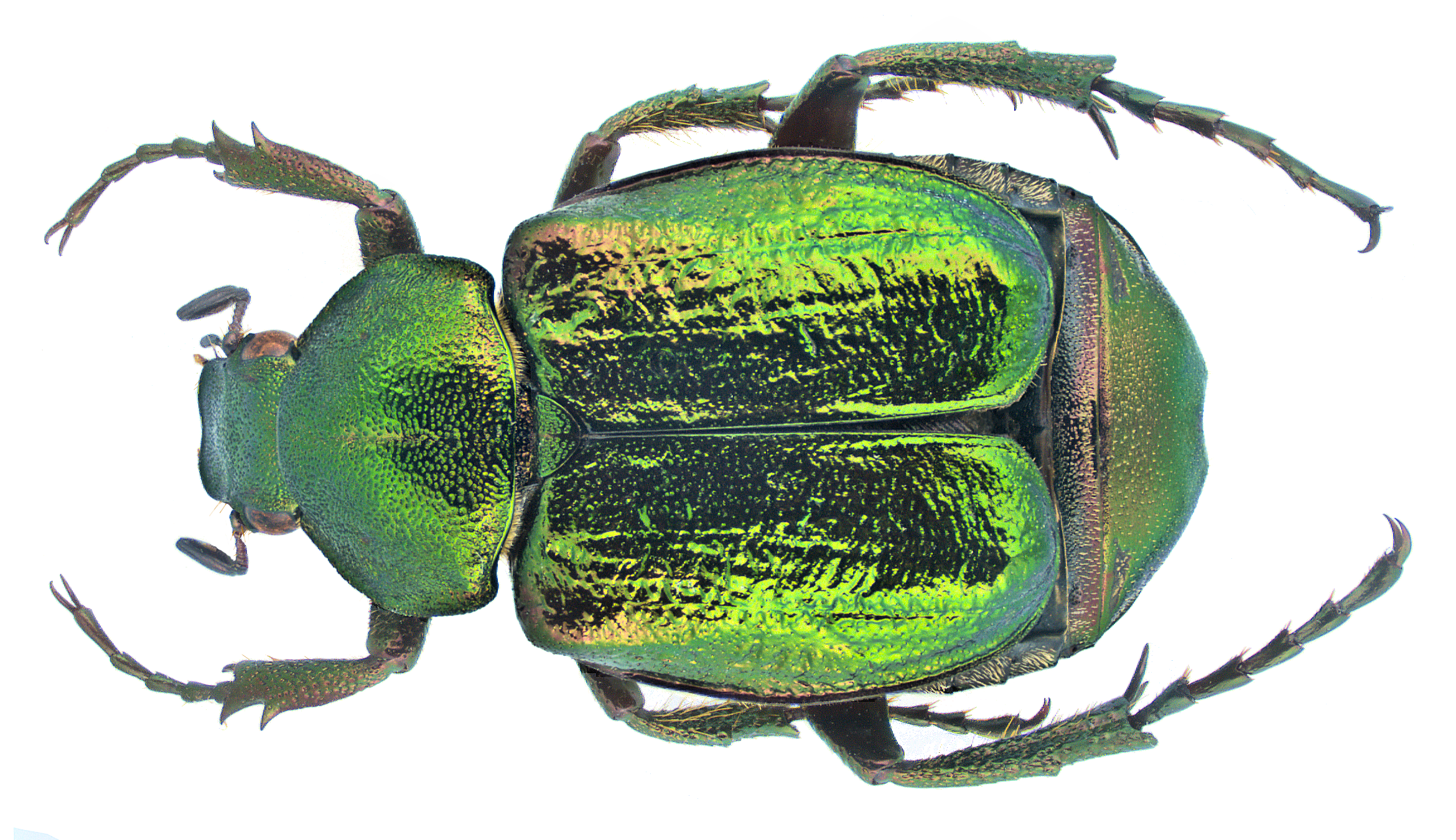 Family: Scarabaeidae Size: 17,7 mm (15,0 to 18,0 mm) Origin: Southern Europe, Central Europe Ecology: developments in sludge of hollow trees Location: Germany, Bavaria, Upper Franconia, Kulmbach, Blaicher Berg leg.det. U.Schmidt, 28.VI.1974 Photo: U.Schmidt, 2015